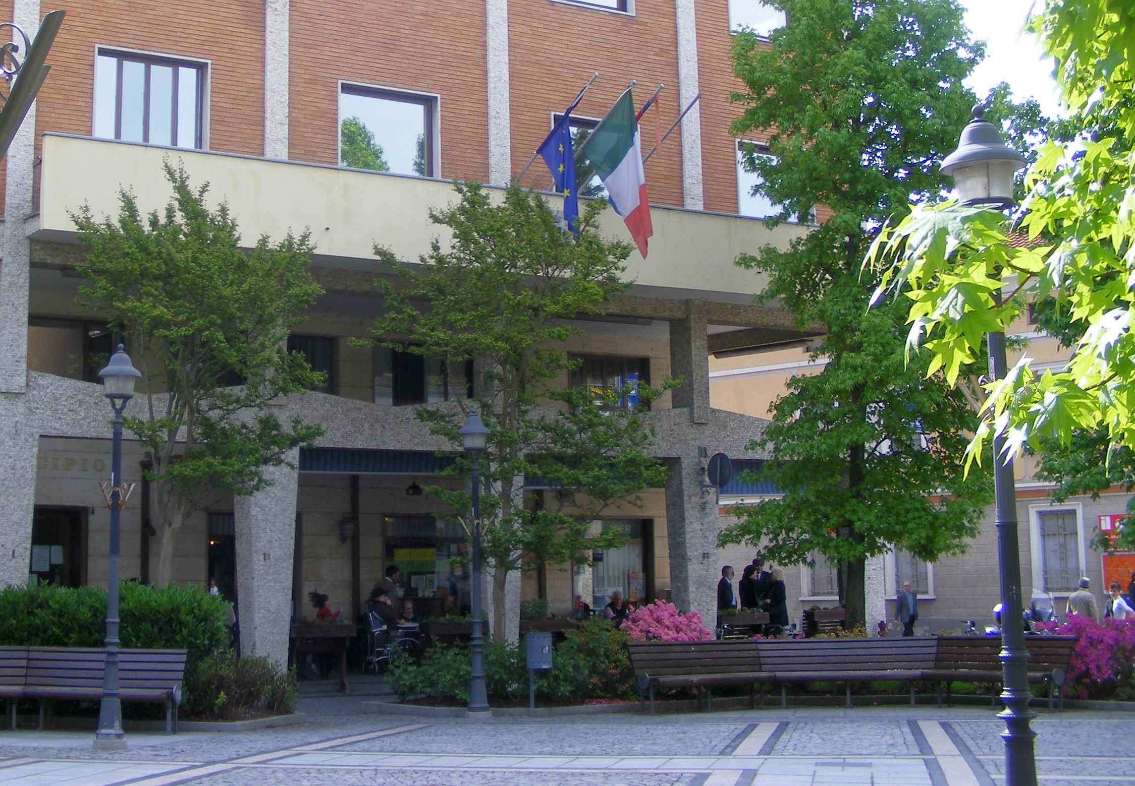 Cigliano (VC, Italy): town hall